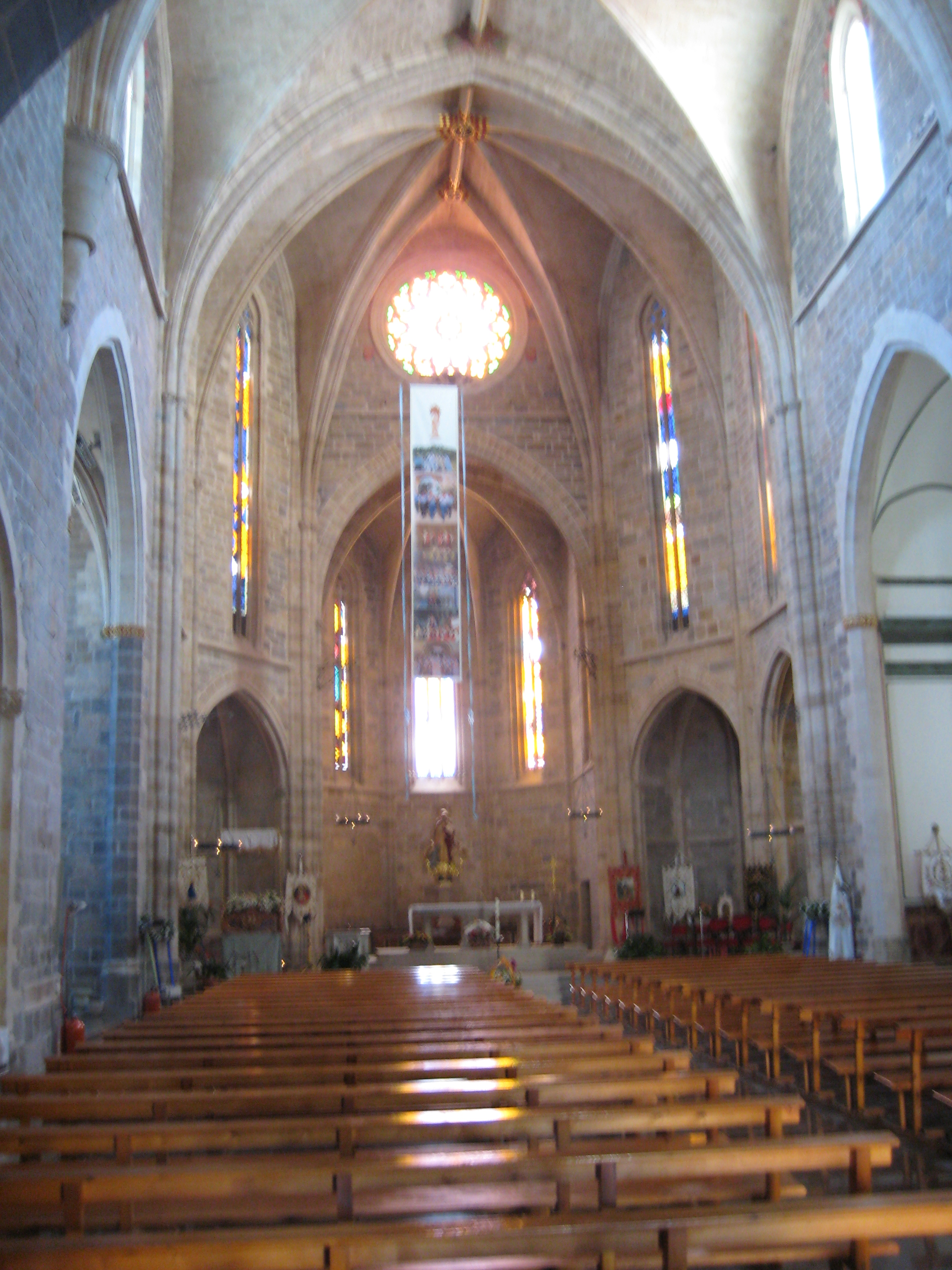 Interior of St Mattew's church, Sant Mateu (Castellón, Spain)